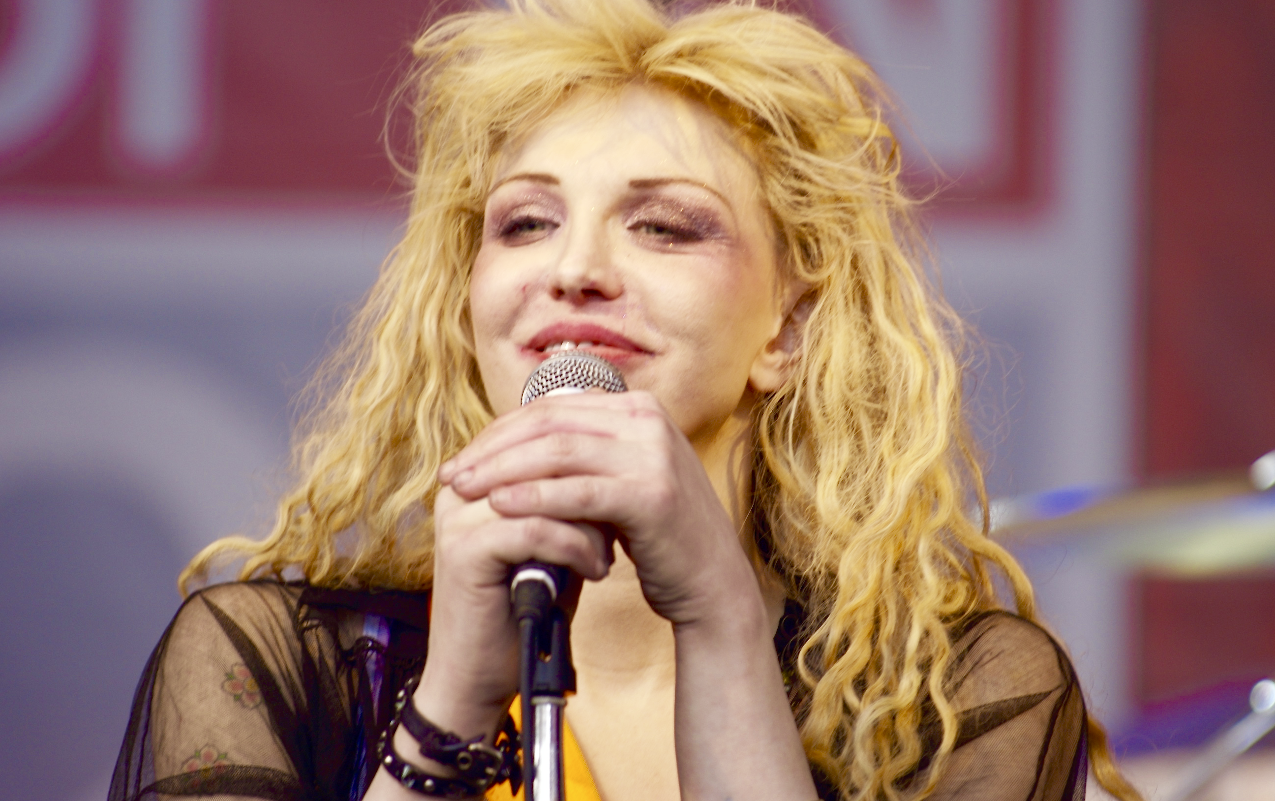 Courtney Love in 2010